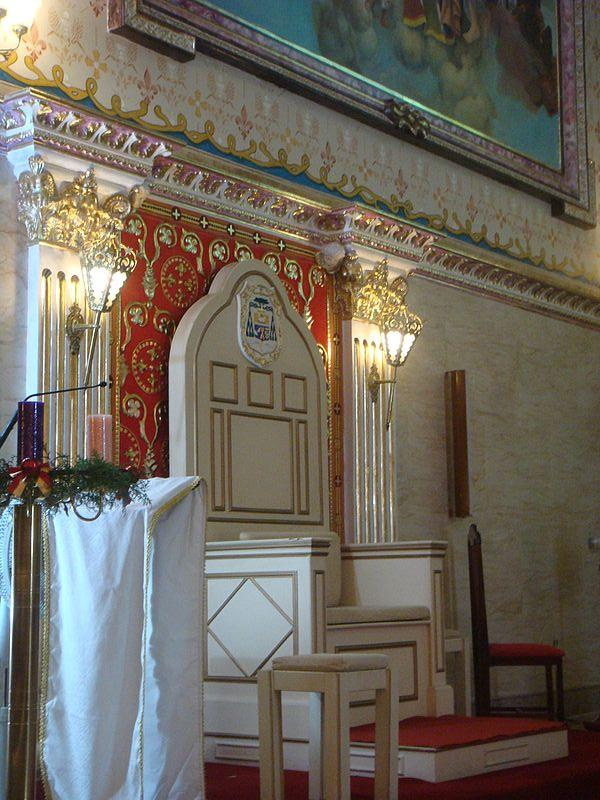 Catedra of the Bishop in the Main Church of the Administration of Campos, Brazil. It had the arms of Mons. Rifan.